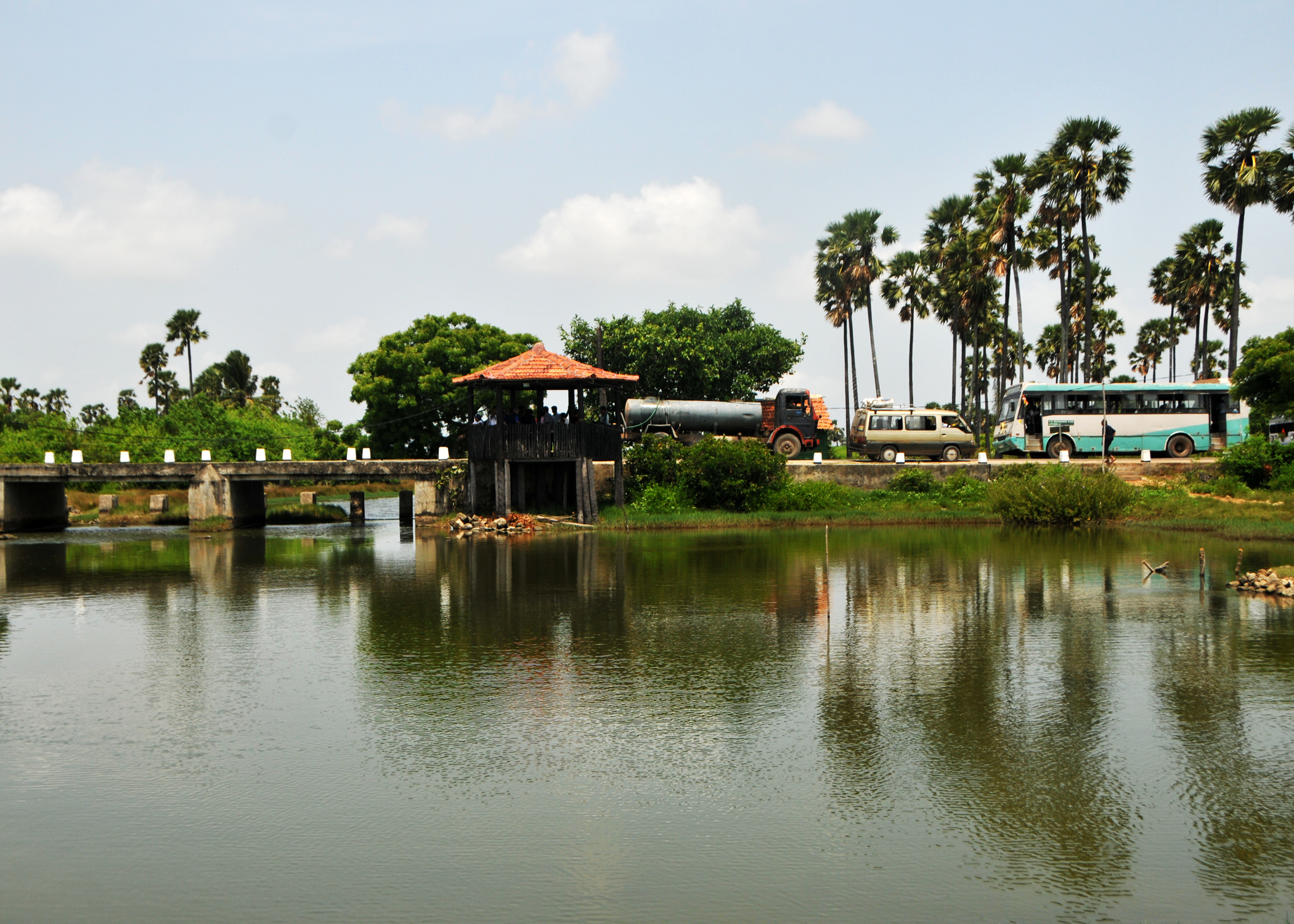 A loogon in Jaffna district